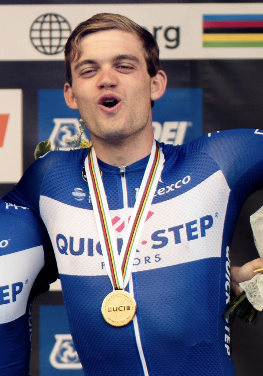 Kasper Asgreen - UCI Road World Championships Innsbruck/Tirol Men's Team Time Trial.